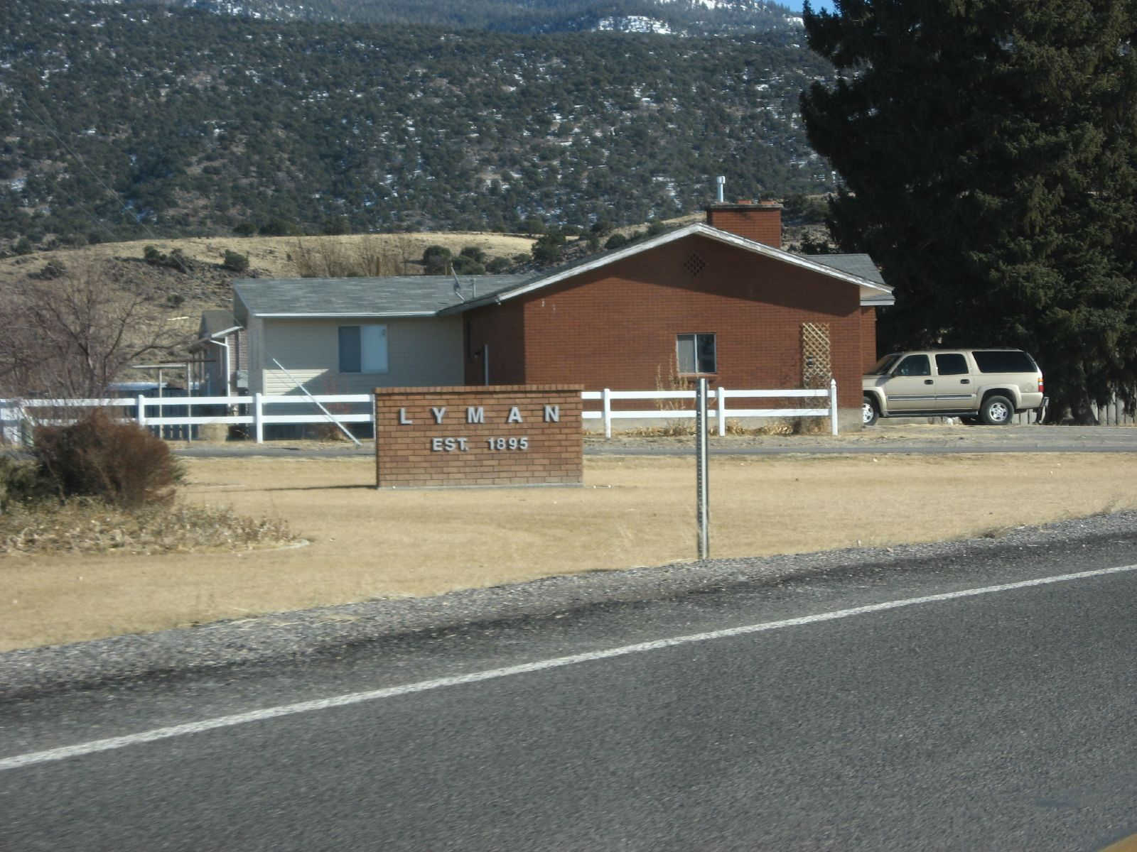 Welcome sign at Lyman, Utah, United States.